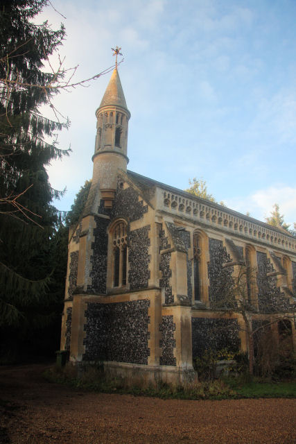 Roman Catholic church of Our Lady of Consolation and St Stephen, Lynford, Norfolk, seen from the southeast